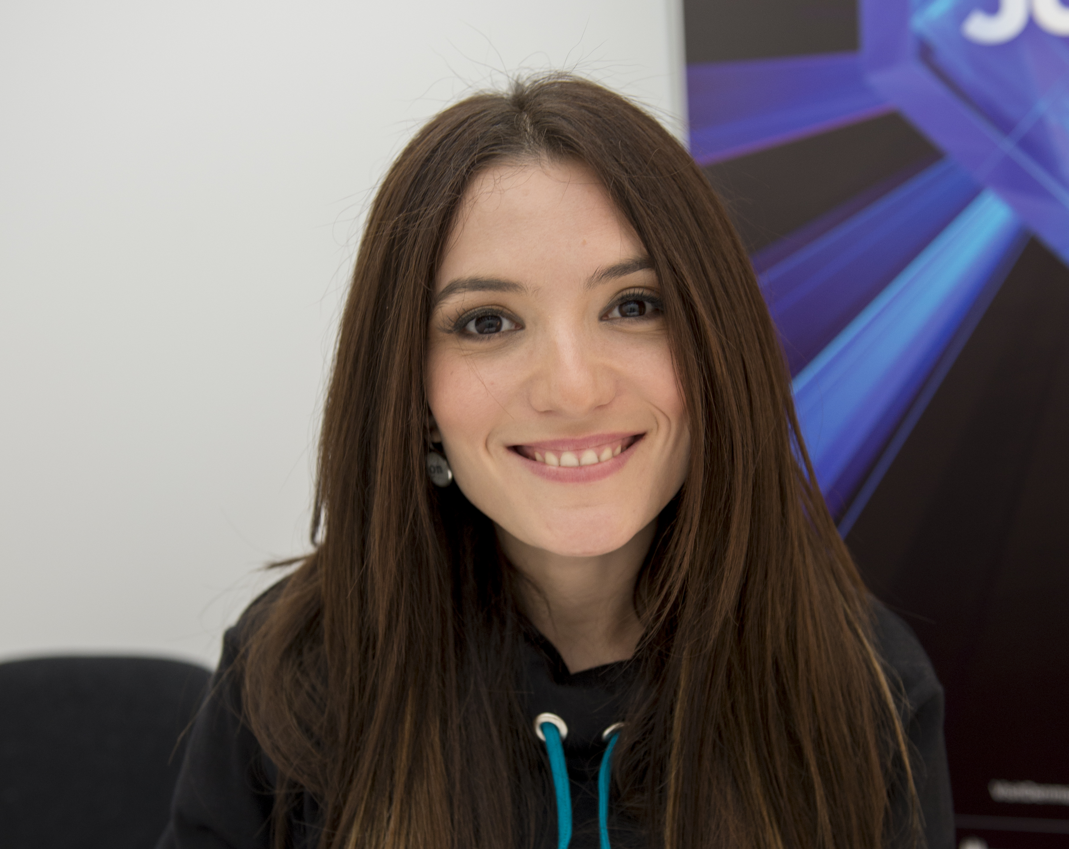 Dilara Kazimova at a Meet & Greet during the Eurovision Song Contest 2014 Copenhagen. (Help translate this text)